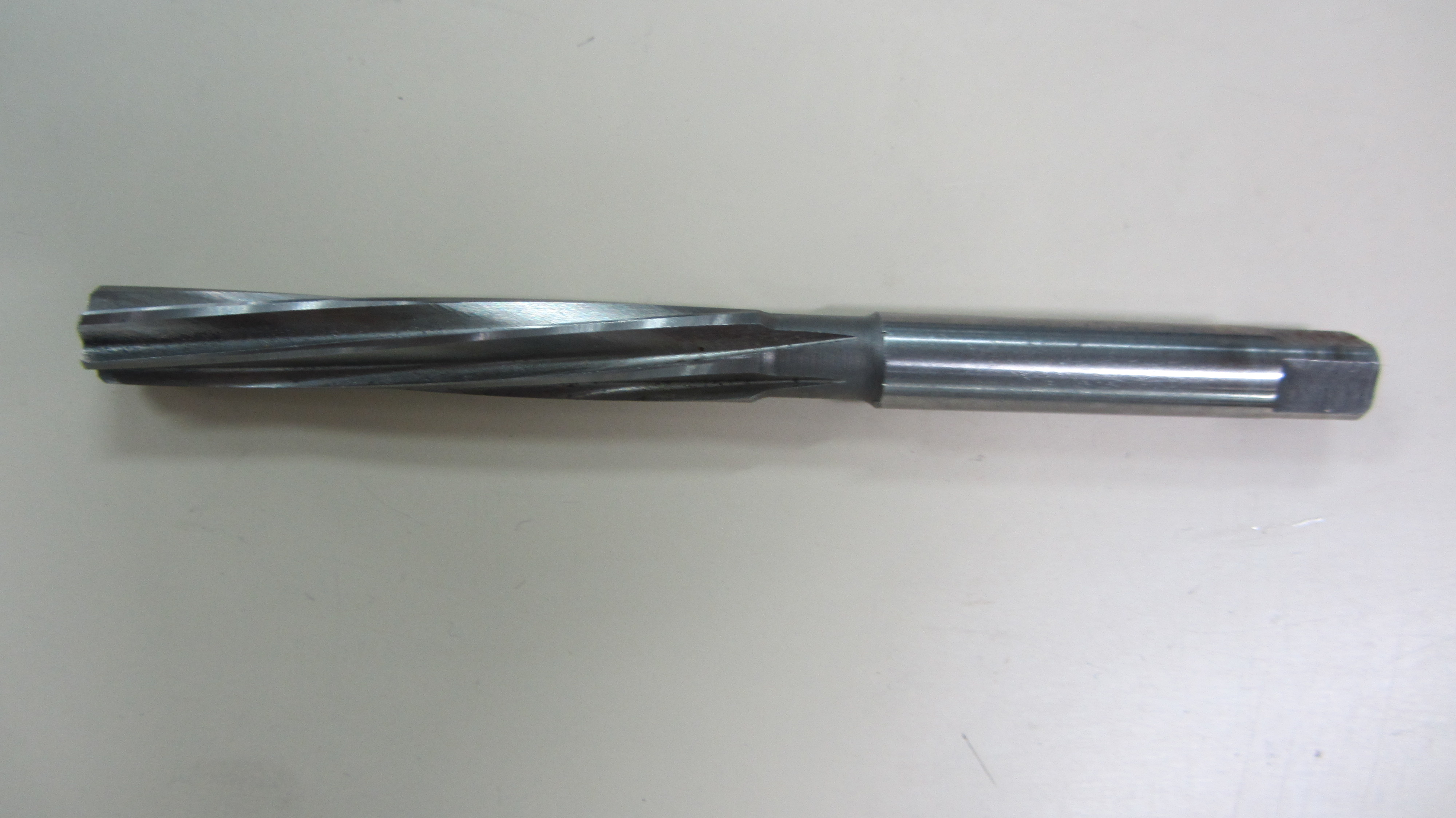 Reamer